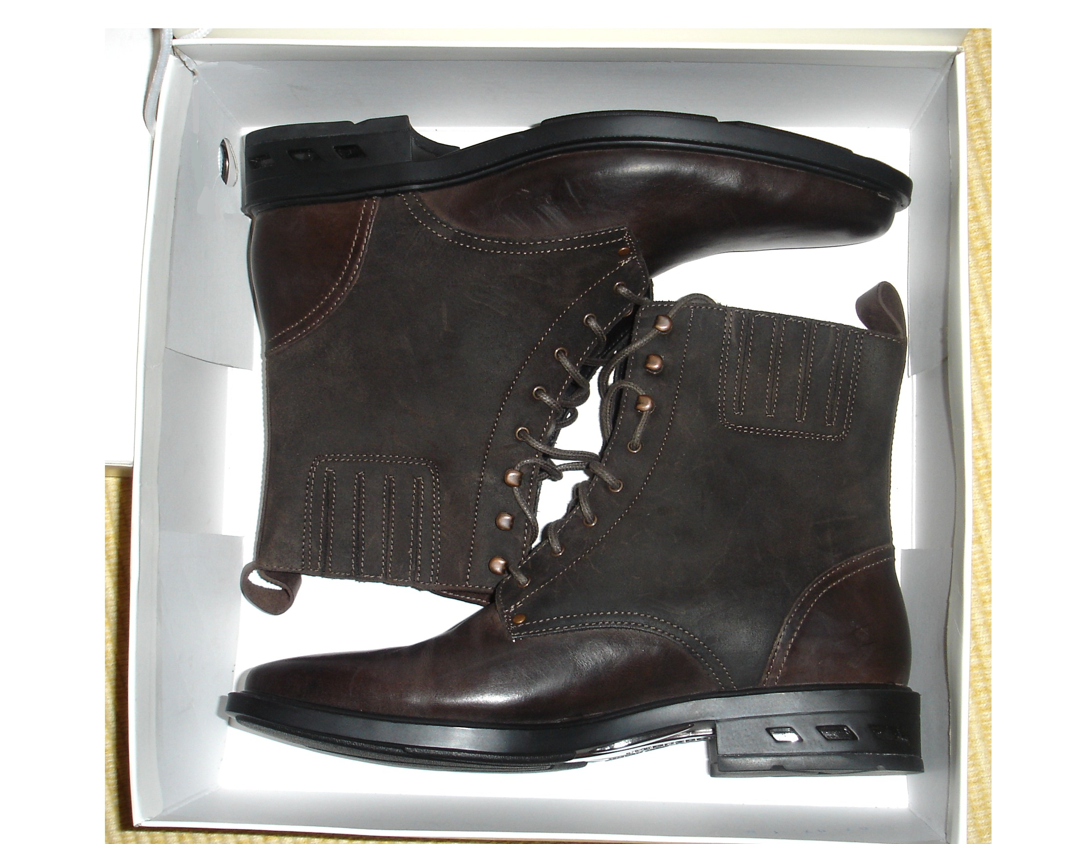 Rockport Bridgetown dark men shoes pair in the box.